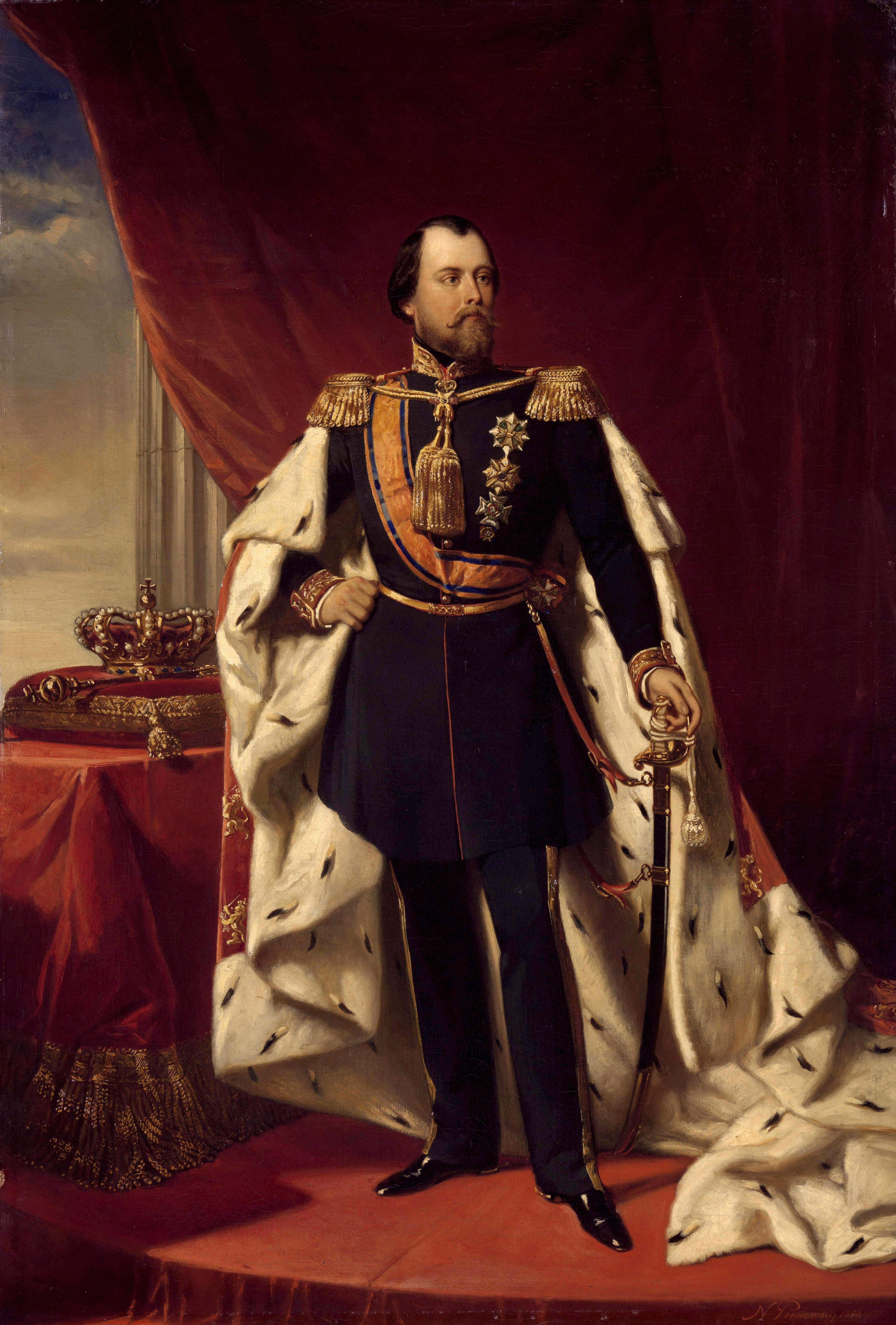 Portrait of William III (1817–1890), King of the Netherlands, standing, at full-length, in uniform with an eremine robe, holding hHis right hand akimbo and his left hand on the sword. To the left on a pillow on a table are placed the crown en the sceptre.